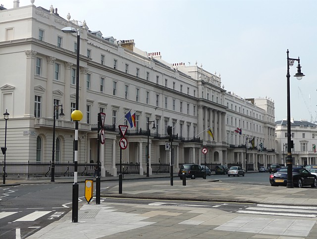 South-west terrace of Belgrave Square. The south-west terrace was built some time between 1826 and 1837. Each of Belgrave Square's four terraces was designed by George Basevi, and its three corner mansions, an unusual device, were designed by separate architects. Each terrace has emphases at its ends and in the middle, making it resemble the facade of a palace. Grade I listed. It is a very grand square, covering some ten acres, lent a coherence by the terraces (although they are subtly different) and the landlord's continuing restrictions on decoration (any colour you like as long as it's cream). The generally greater embellishment (e.g. heavier cornices) is typical of the age, as late Georgian transmuted into Italianate. Comparison with a mid-Georgian square such as Bedford Square is instructive 562542. Much of Belgravia was developed in the 1820s, having previously been a rural area renowned for its footpads and robbers ("a dreary tract of stunted, dusty, trodden grass, beloved by bull-baiters, badger-drawers, and dog-fighters"). It was, and still is, owned by the Grosvenor family, the Dukes of Westminster, whose main builder was Thomas Cubitt (reputed to have done "more to change the face of London than any other man"). It was unpromising land on which to build because of its clay which retained water and left the area resembling a swamp ("lagoon of the Thames"). The determined Cubitt kept digging until he met gravel, burned the clay to make bricks, and he was away. It soon proved a profitable development, helped in part by George IV's decision to convert nearby Buckingham House into his residence.